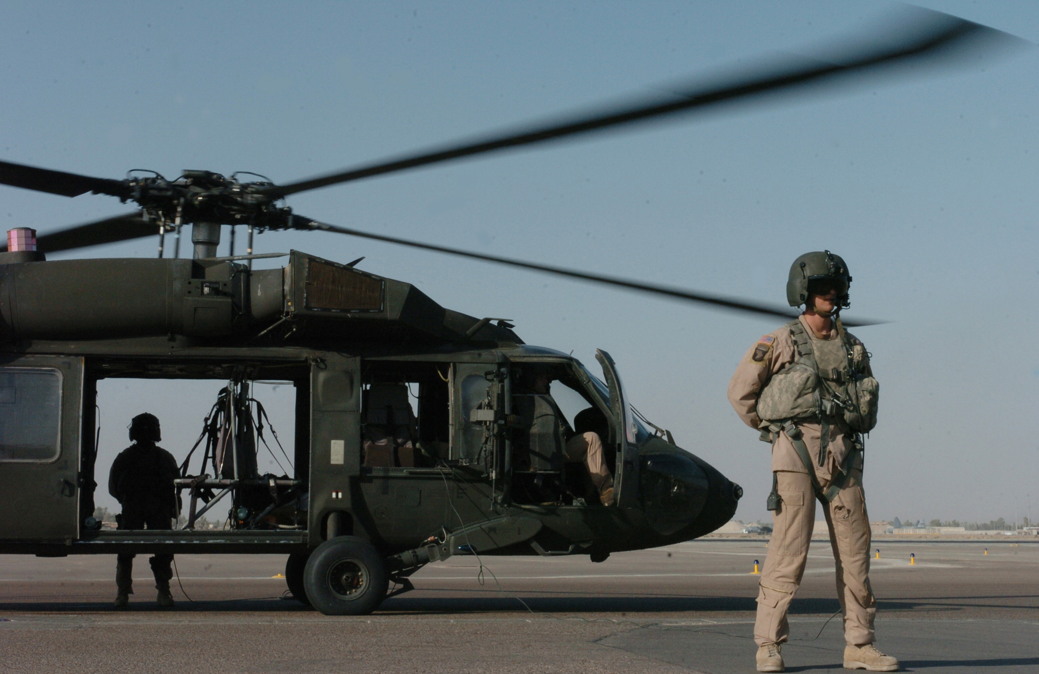 Sergeant Jonathon Delong, from Passadena, Md., Company C, 2nd Battalion, 224th Aviation Regiment, Maryland National Guard, attached to the 7th Battalion, 101st Aviation Regiment, stands near his UH-60 Black Hawk as he waits to greet Lt. Gen. Peter Chiarelli, Multi National Corps-Iraq commander, at Logistical Support Area Anaconda, Iraq August 3. Chiarelli was at the LSA to present Air Medals to a couple of his personal flight crews for responding to a downed aircraft site while his deputy commander was on board July 13. The crews, from Company C, responded to a call that an AH-64 Apache was shot down in Baghdad and within minutes of hearing the radio call for immediate ground or air support, plotted out the location and rescued both pilots and returned them to a safe location.